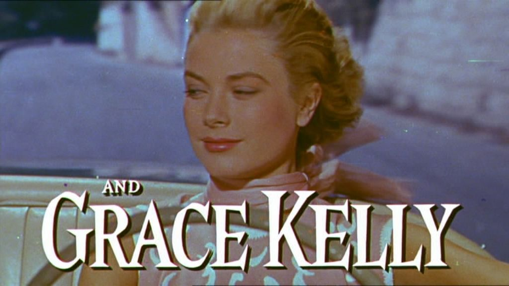 Screenshot of Grace Kelly from the trailer of the film To Catch a Thief (film)